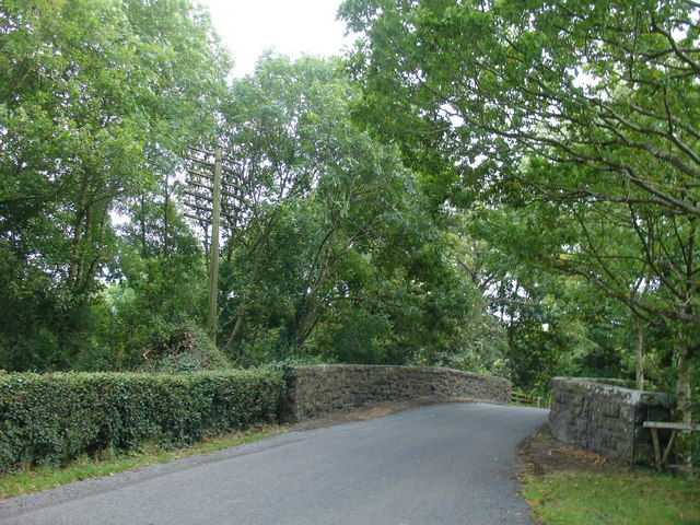 Country Crossing One of the region's best kept secrets* is the old route of the Portadown to Derry railway, of which this is one of the original road bridges still in service. Note the original railway telegraph/telephone pole complete with white insulators. The route is not shown on current OSNI mapping, even as a former railway.